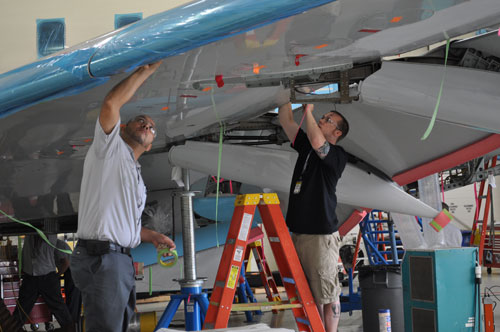 Mechanics at work, Bombardier maintenance facility near Love Field, Dallas, TX.